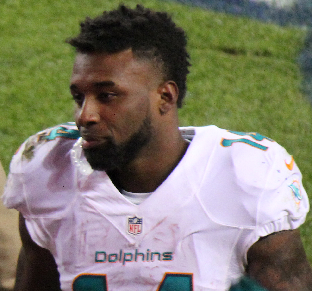 Jarvis Landry, a player on the National Football League.